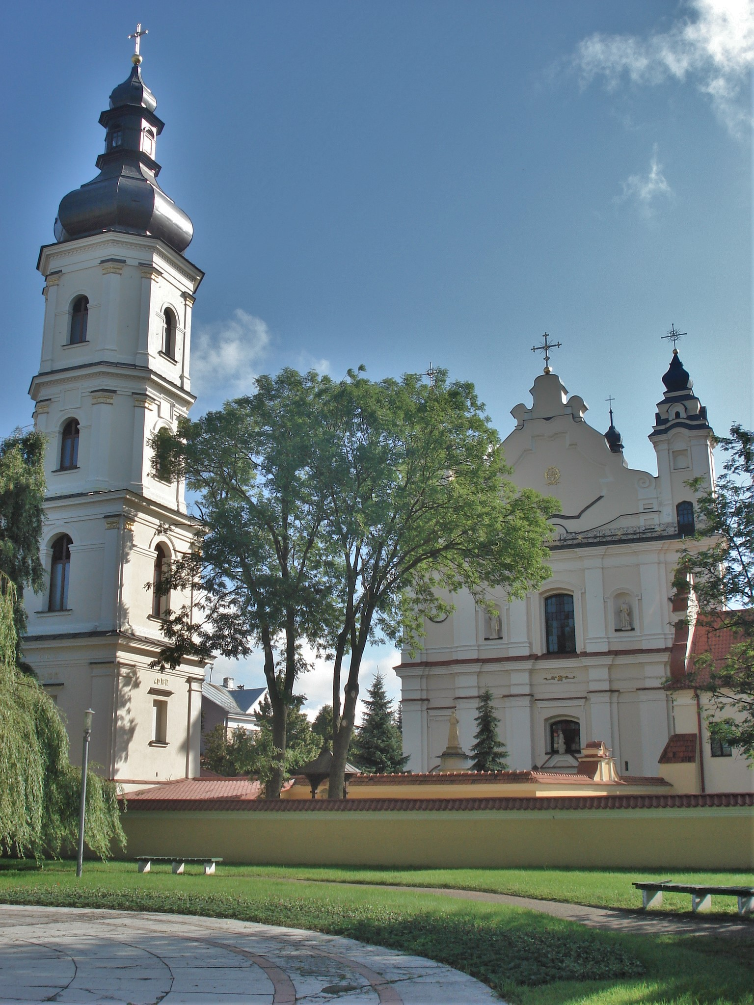 Cathedral of Name of the Blessed Virgin Mary, Pinsk